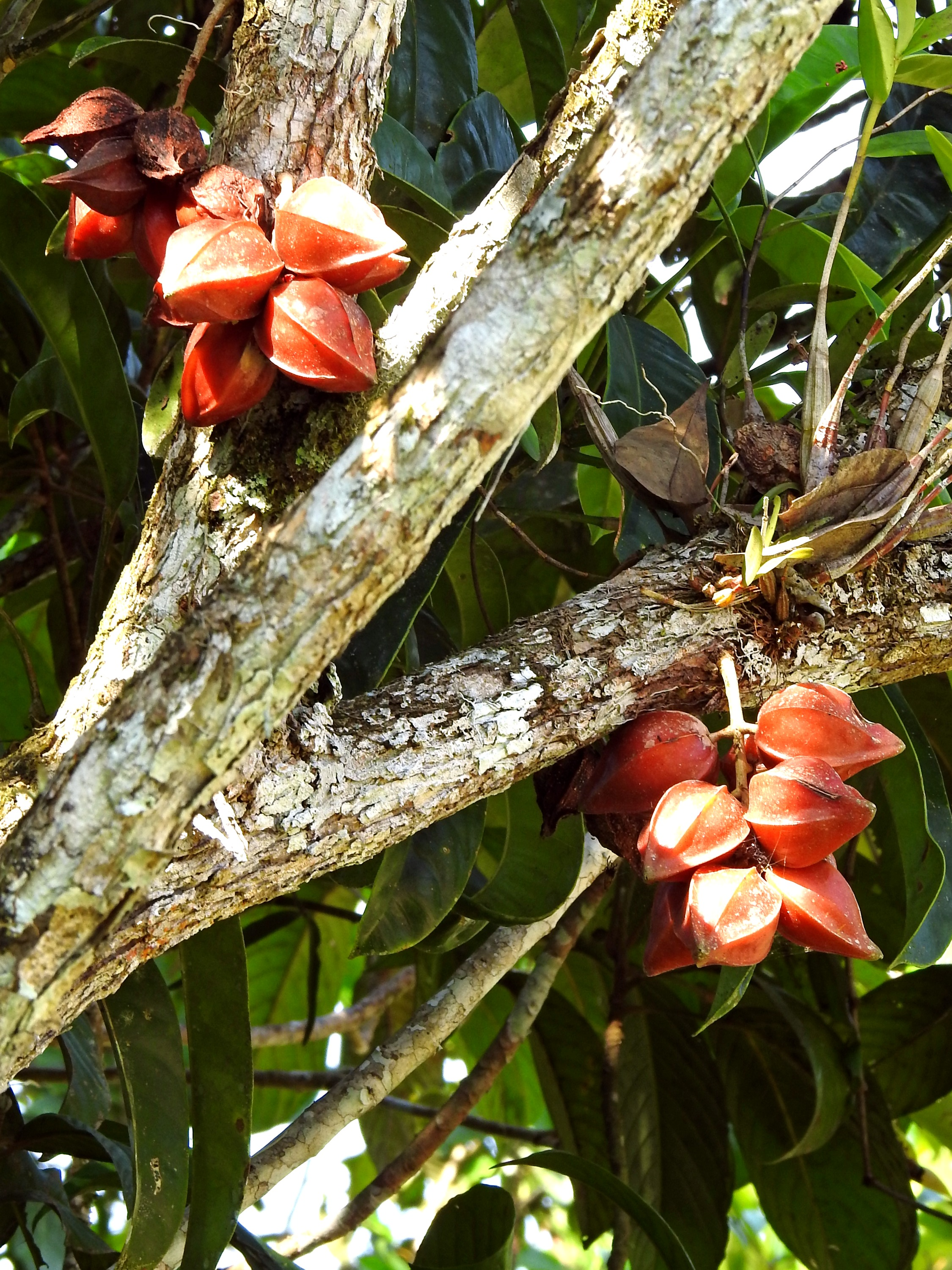 Baccaurea angulata; cauliflorous infructescences. From Sanggau Regency, West Kalimantan, Indonesia.